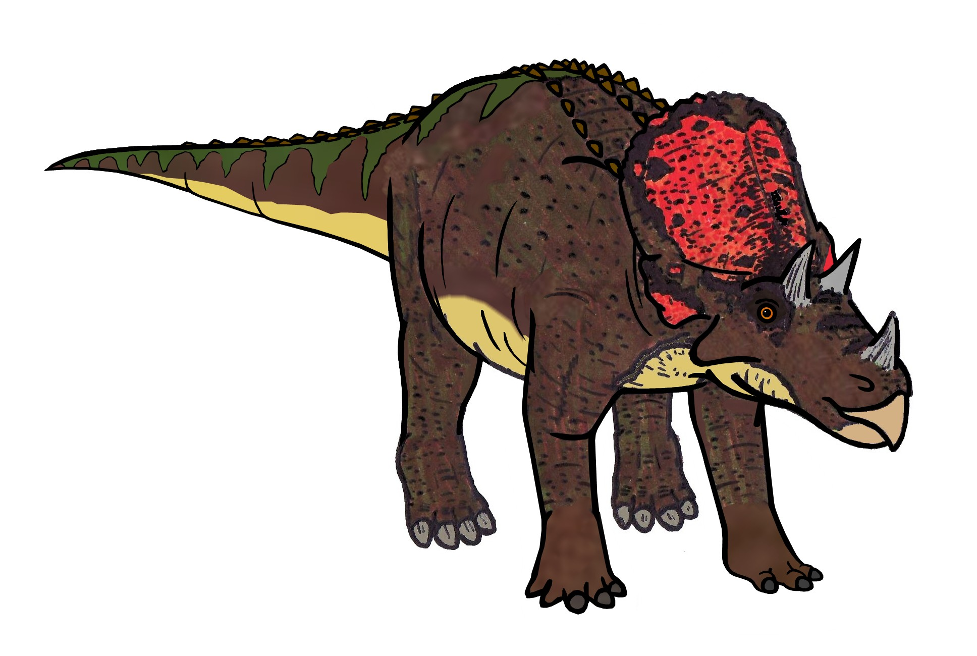 Avaceratops was a horned dinosaur, related to Triceratops. Like it's much bigger cousin, it lived in North america.